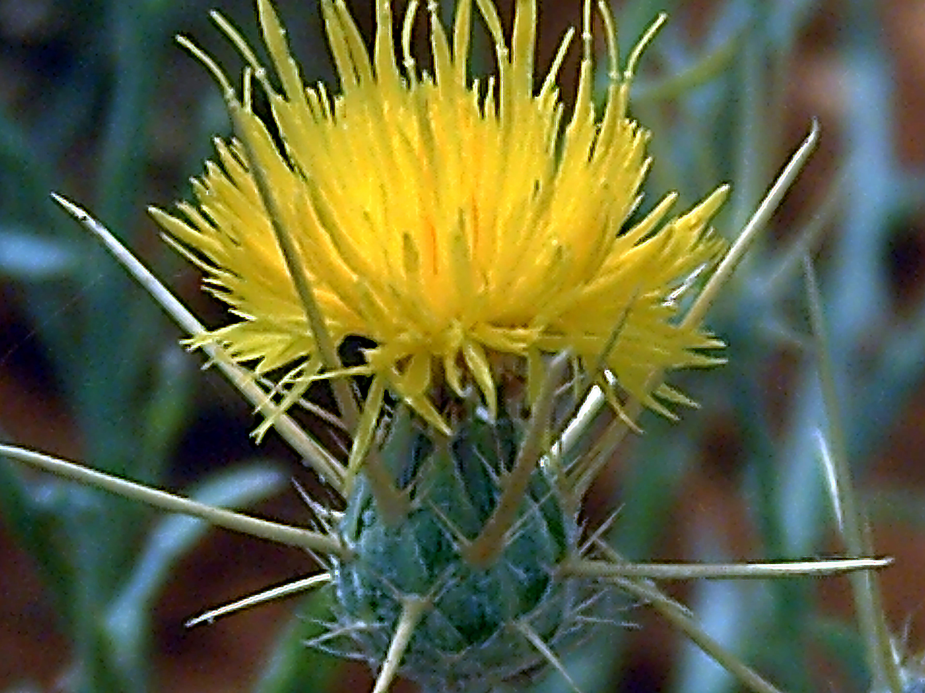 Centaurea solstitialis inflorescence close up, Campo de Calatrava, Spain